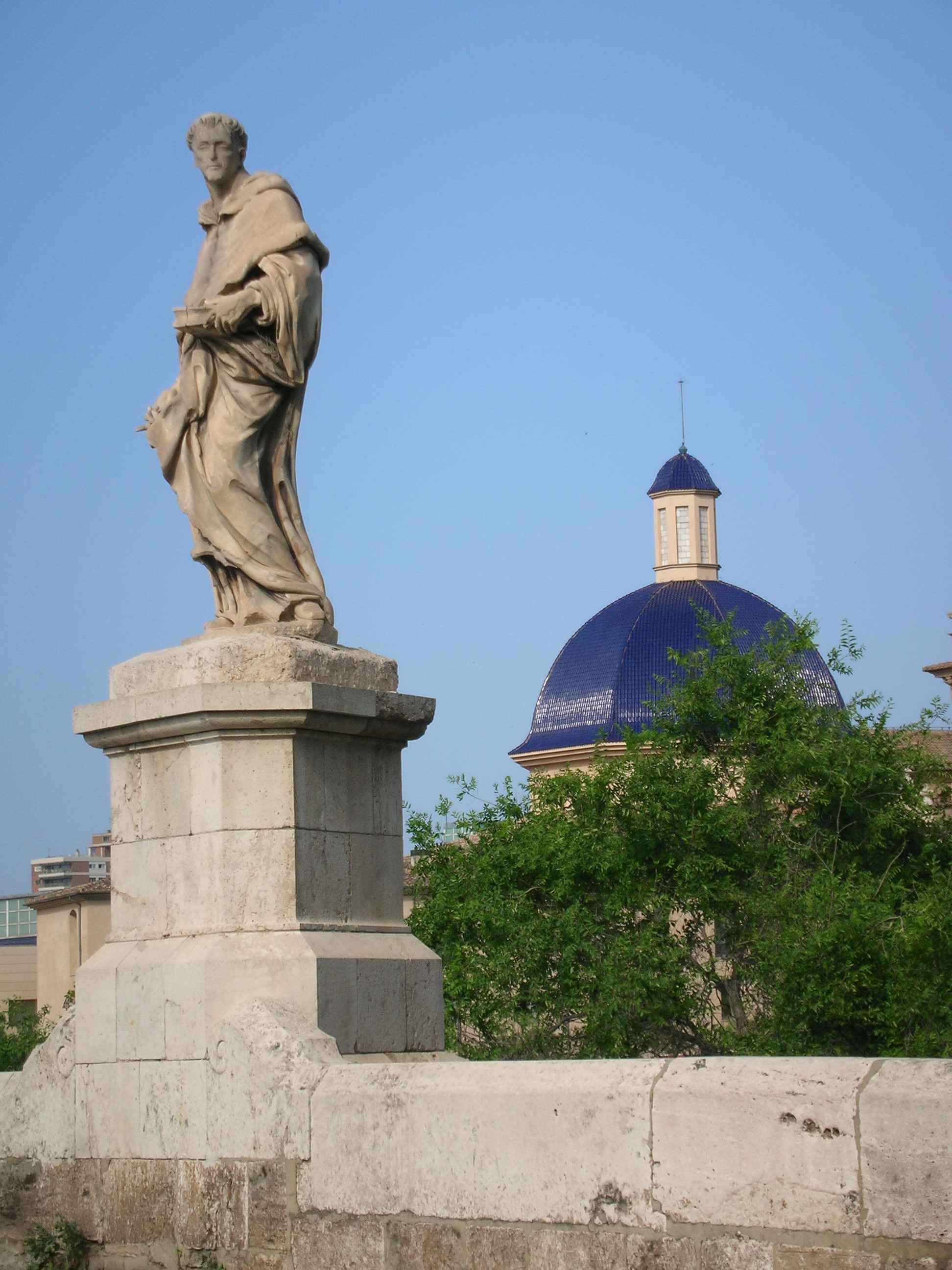 Statue of St. Lluís Bertran, Giacomo Antonio Ponsonelli, in the Trinity Bridge, Valencia, with the dome of the Museu de Belles Arts at the background